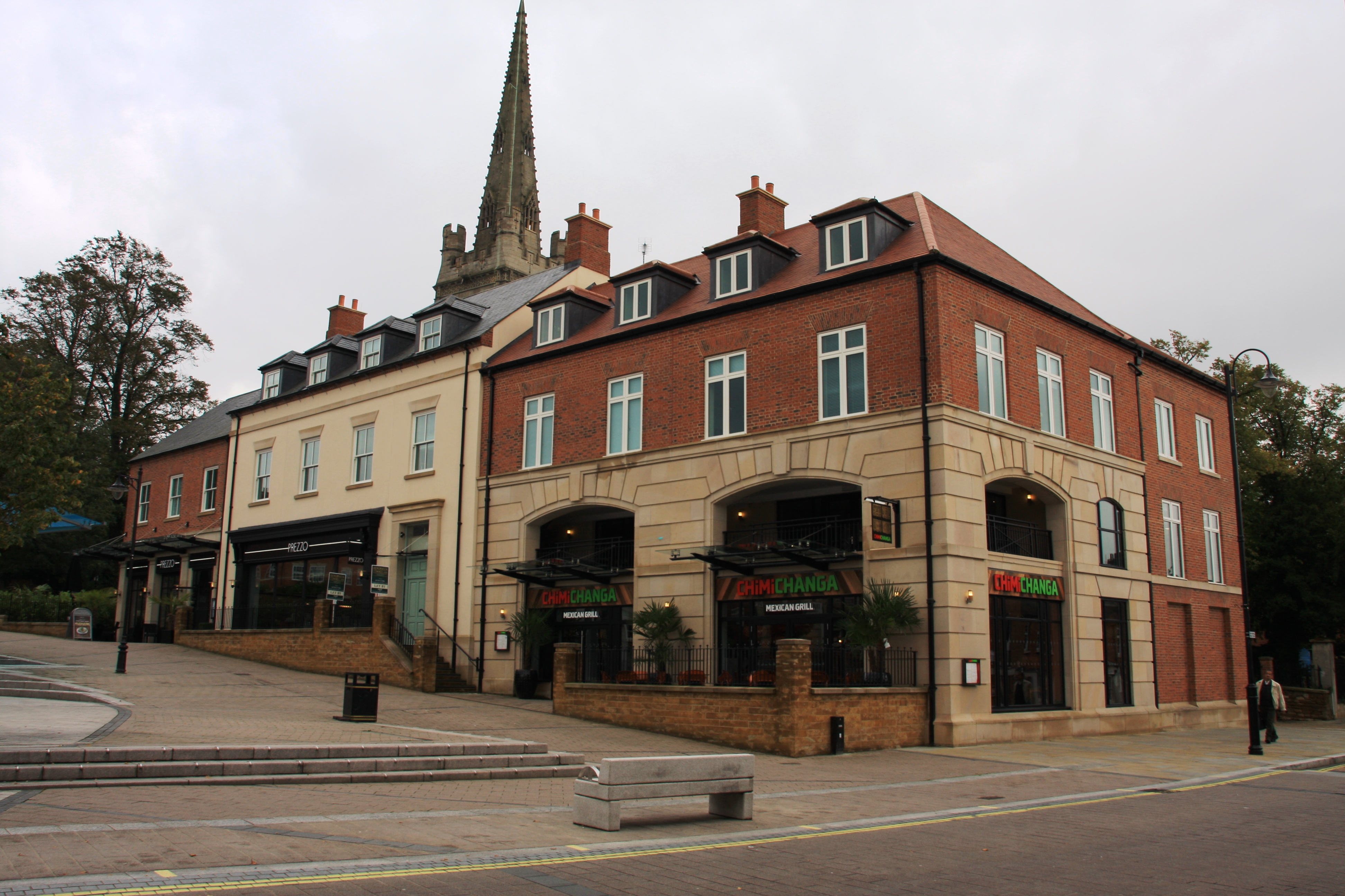 Photo of Kettering Market Place and restaurant buildings